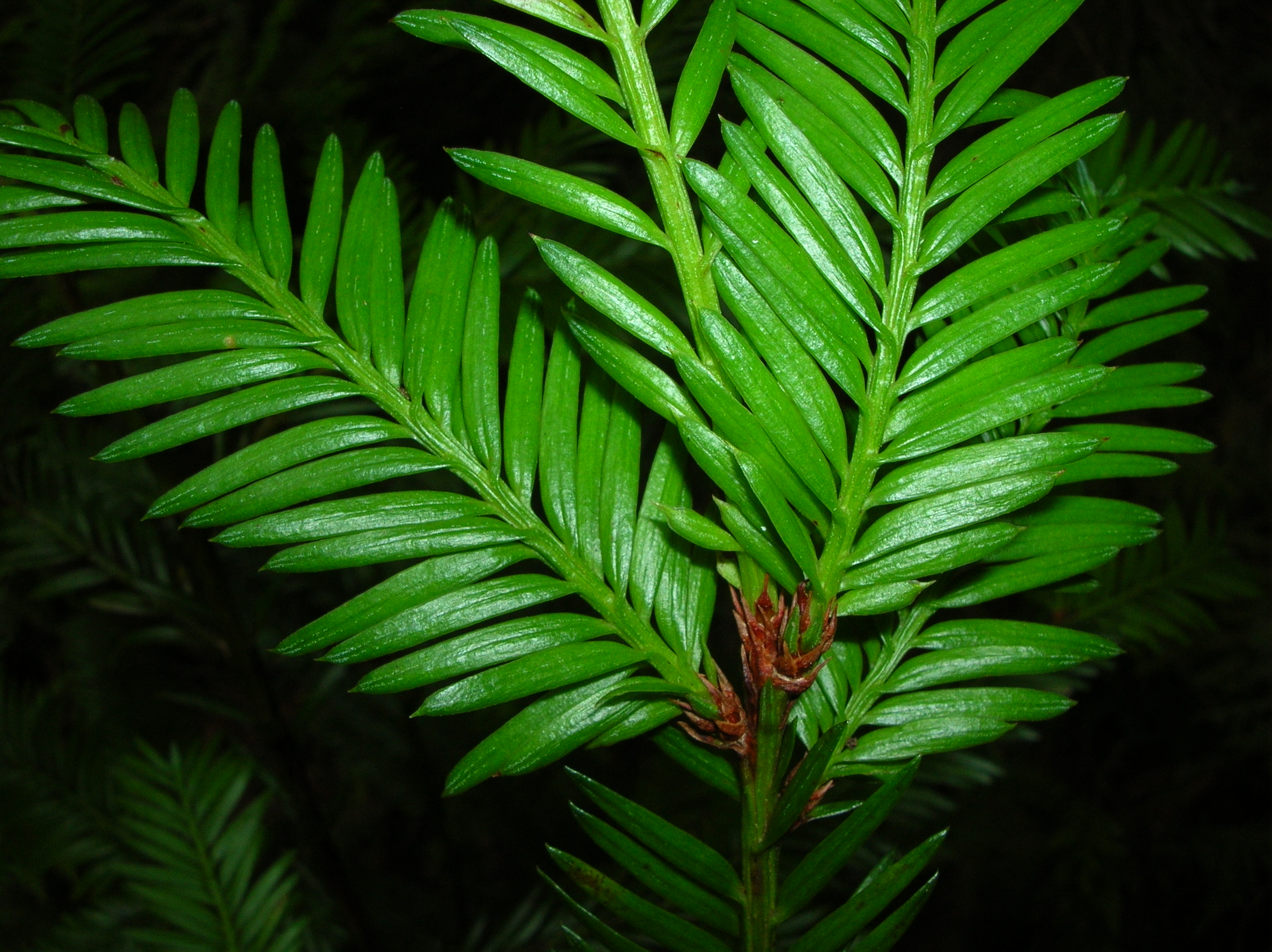 Sequoia sempervirens (Tie trail). Location: Maui, Polipoli